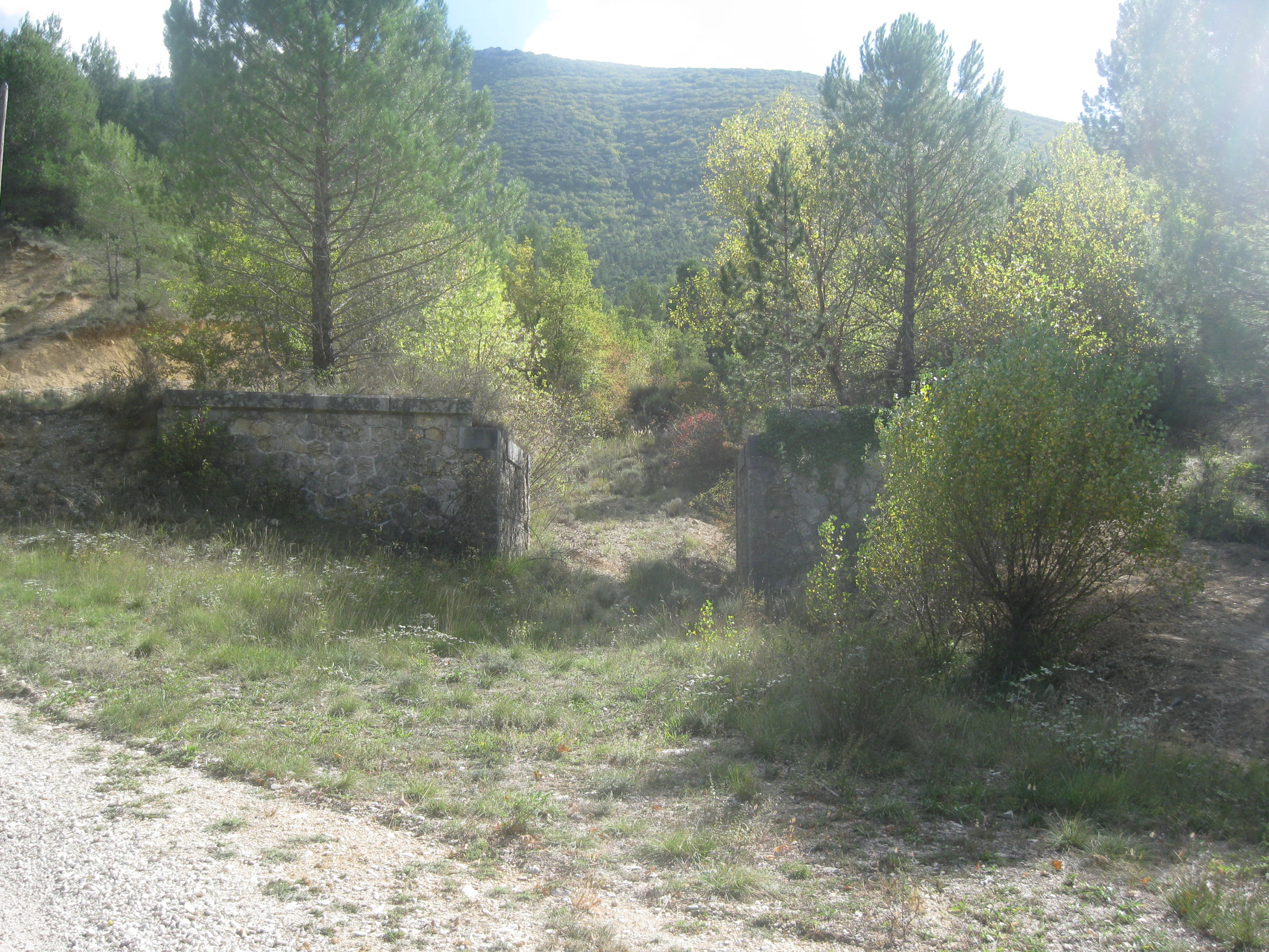 old bridge of the train line orange-buis